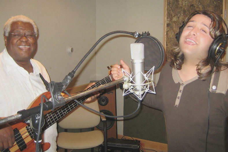 Davi Wornel with Abraham Laboriel